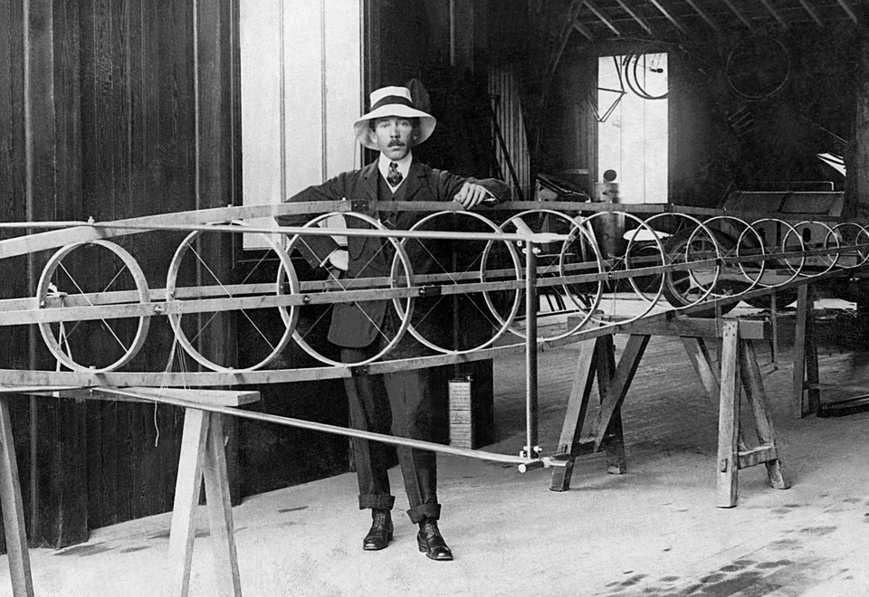 Brazilian aviation pioneer Alberto Santos-Dumont with his No. 18 "floatplane", never completed